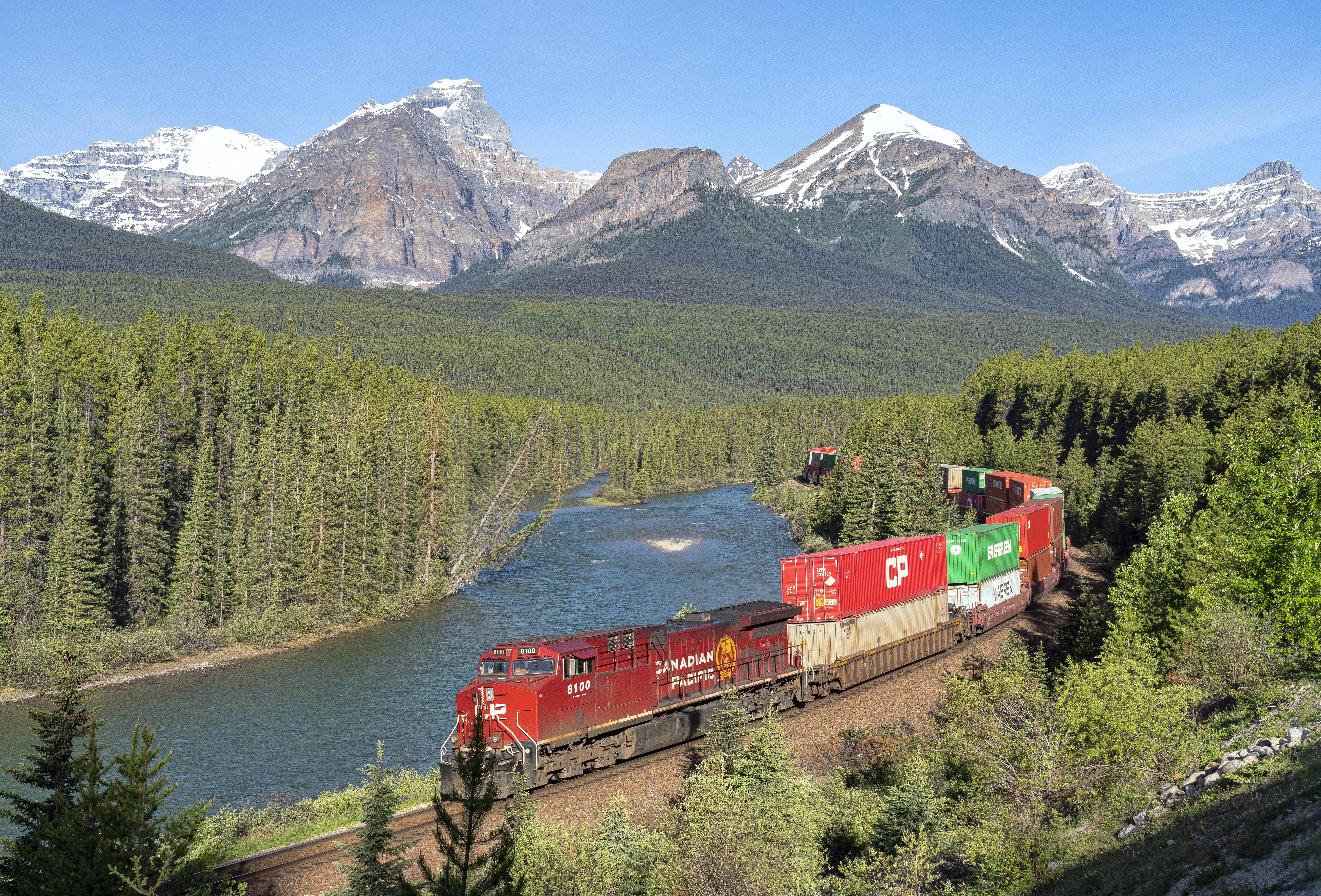 morant's curve bow valley 2019